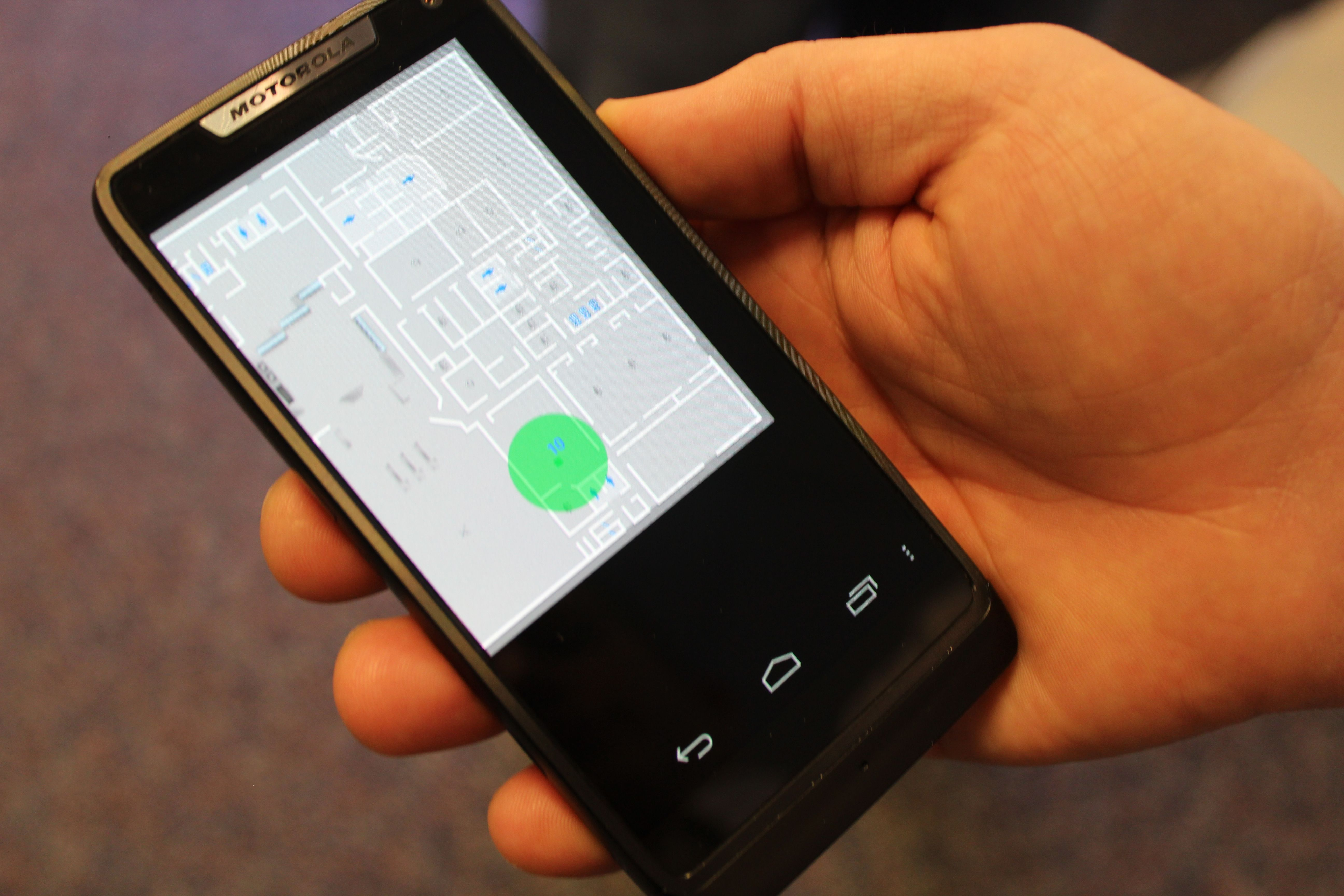 Intel developed a location-based services proof of concept for one building at its Folsom, Calif. campus. The green dot on the phone display provides a user with a visual mark of where he or she is inside the building. The algorithm for this specific engine improves accuracy of locating an object or person to 3 to 5 meters due to more effective use of Wi-Fi access points.